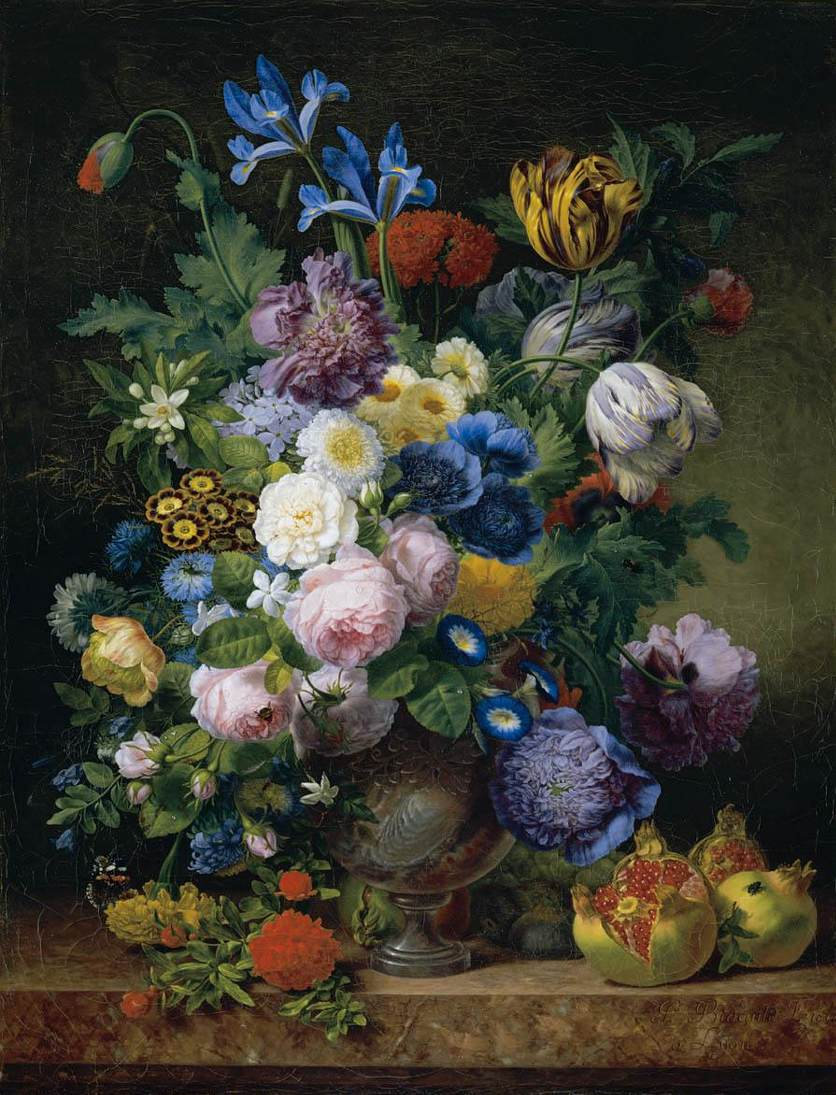 Still Life With Tulips, Carnations, Roses, Irises, Narcissi And Various Other Flowers In A Silver Vase Together With Figs, Grapes and Pomegranates on a Marble Ledge